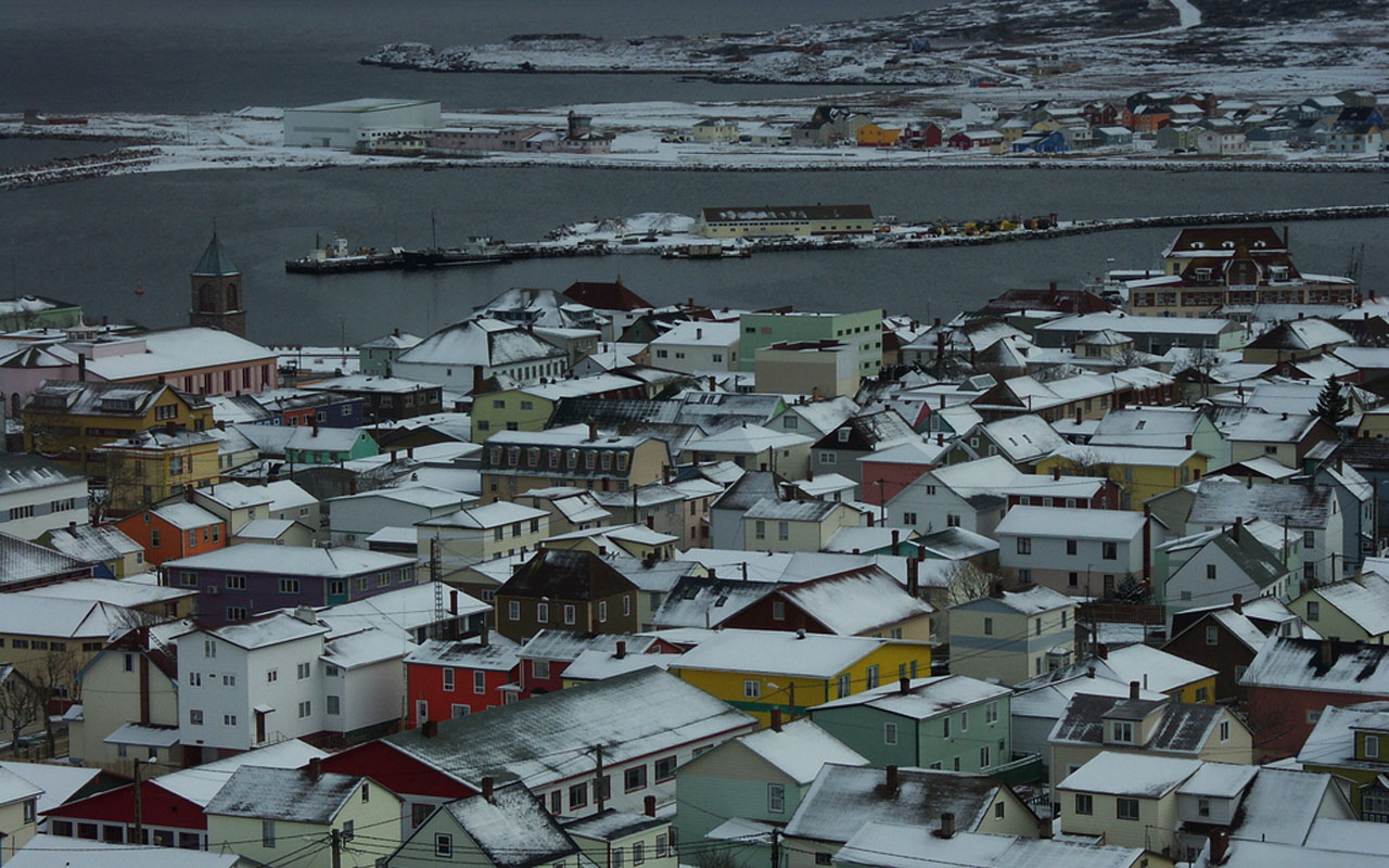 Saint-Pierre, winter.